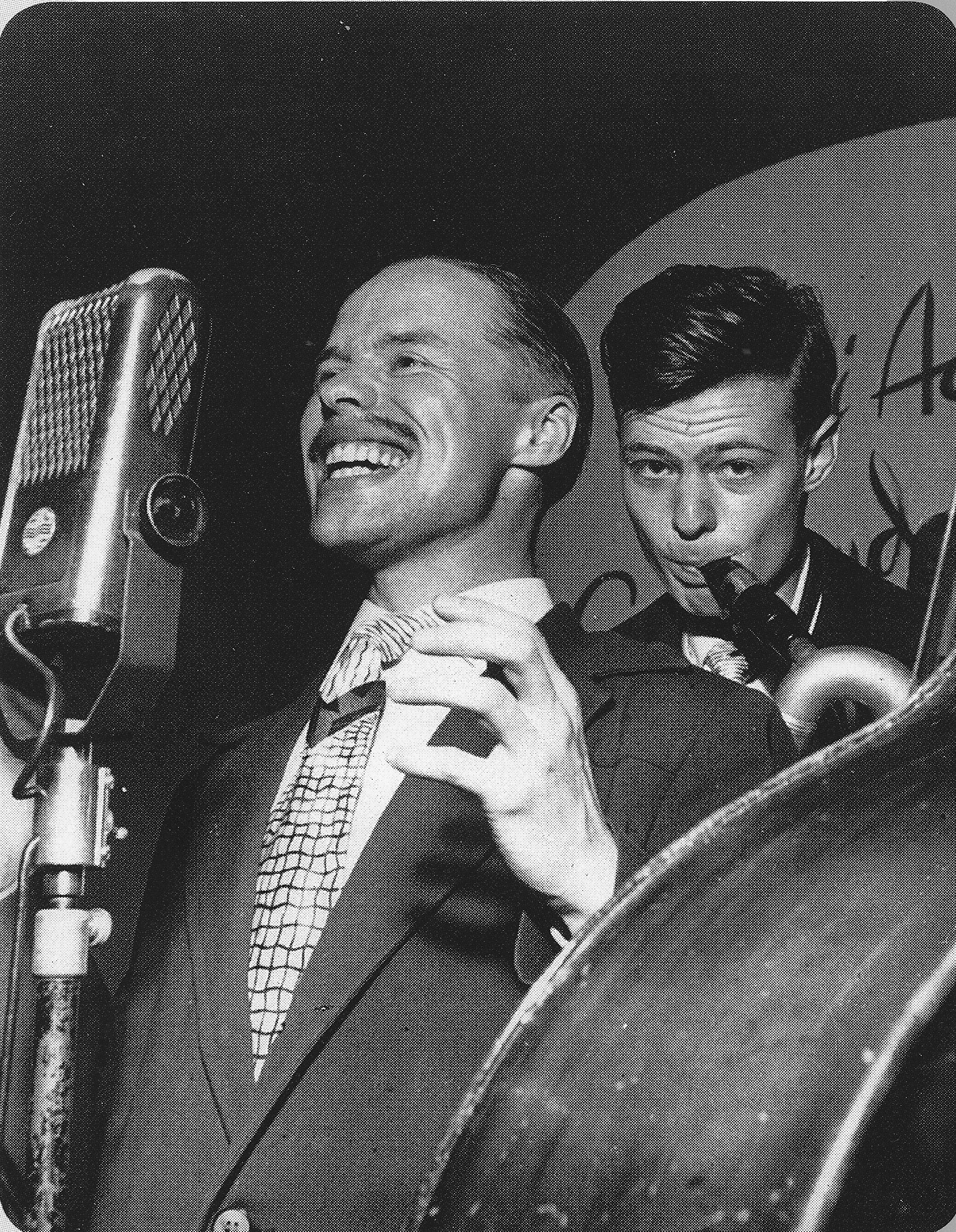 Sacy Sand